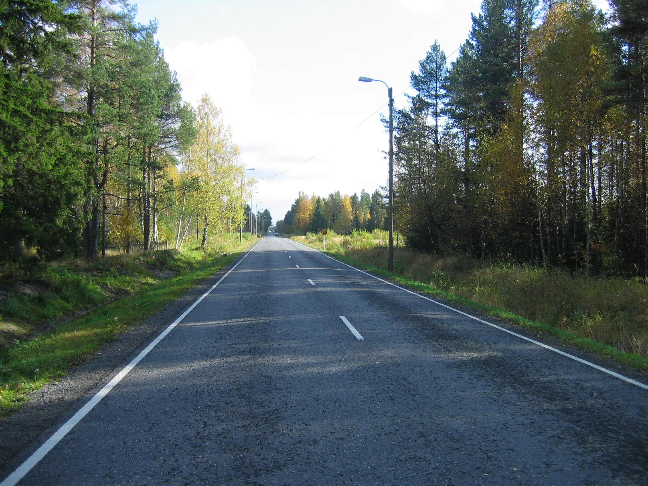 The Finnish regional road 848 seen towards South-East at Koiteli, Kiiminki.